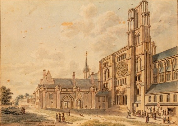 Palais episcopal of Laon (Bishop's house)